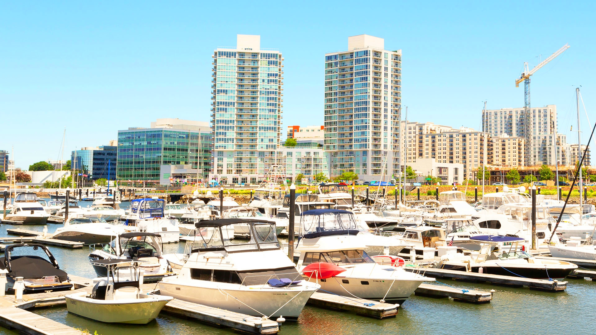 Yachts parked at the Harbor Point Marina in the massive Harbor Point redevelopment of Stamford's South End.